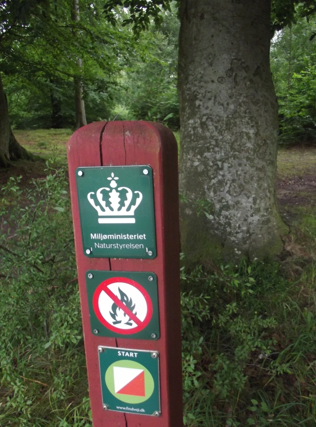 Miljoministeriet mark in Teglstrup Hegn (Hellebæk, DK)